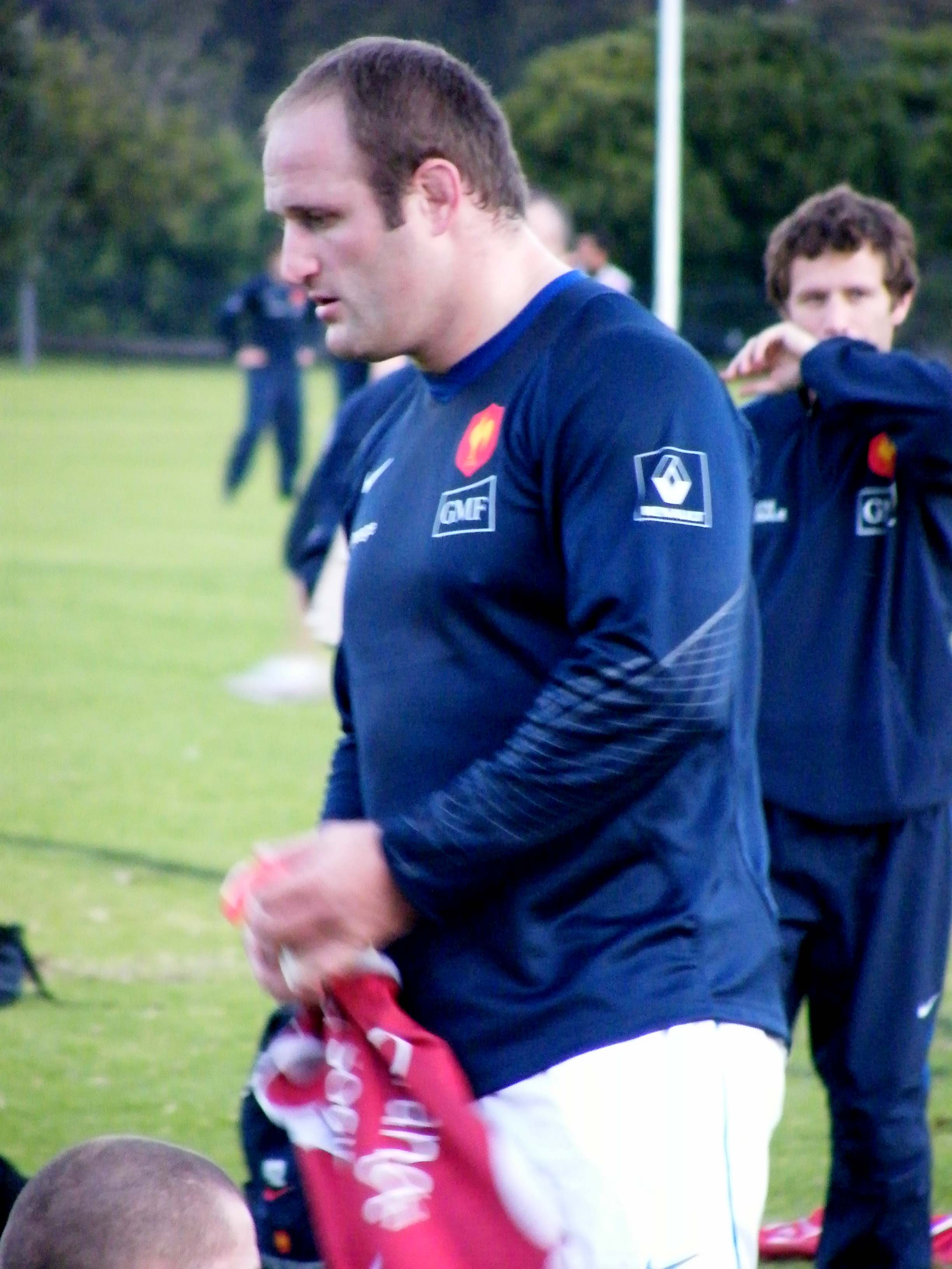 William Servat - French Rugby Union Training - Moore Park, Sydney 23 June 2009.